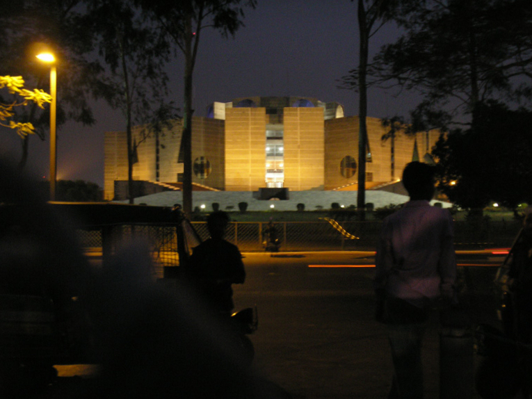 National Assembly of Bangladesh at night.